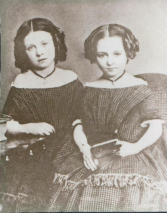 This is a photograph of the novelist Margaret Wolfe Hungerford as a child, on the right. Her sister is on the left.